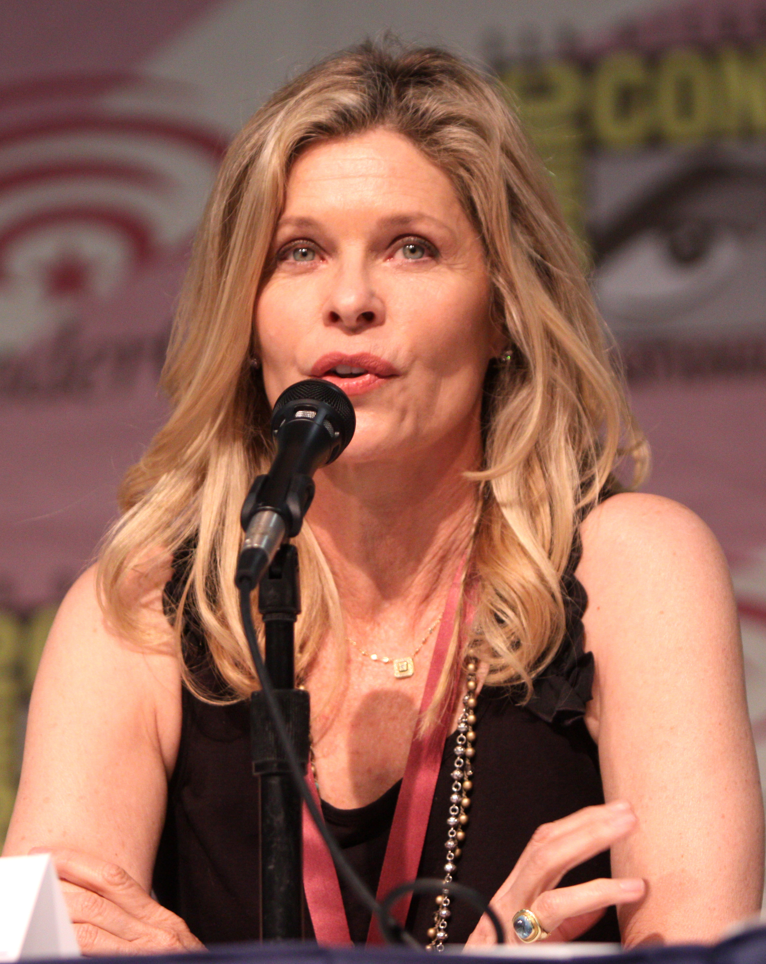 Kate Vernon speaking at the 2013 WonderCon in Anaheim, California on March 29, 2013.